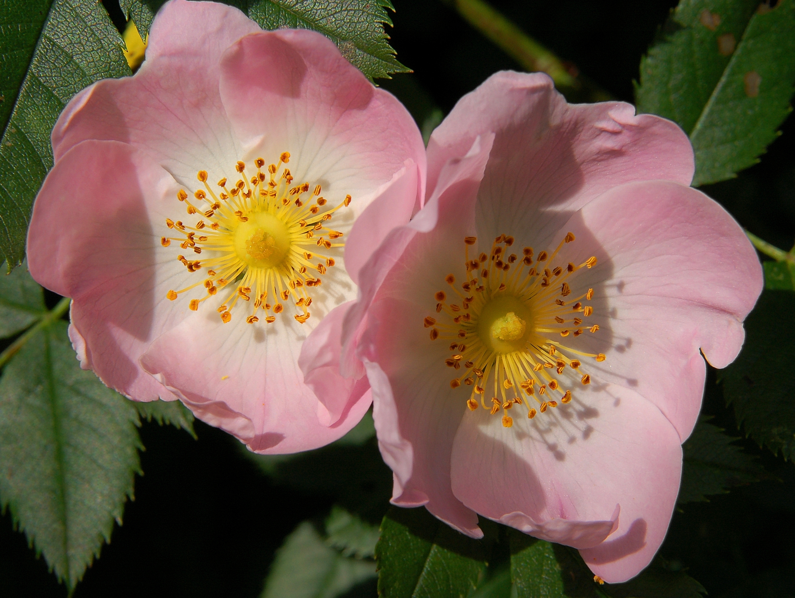 Rosa canina flower in Belgium (Hamois).